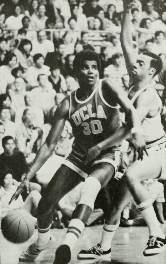 Photograph of UCLA basketball player Curtis Rowe